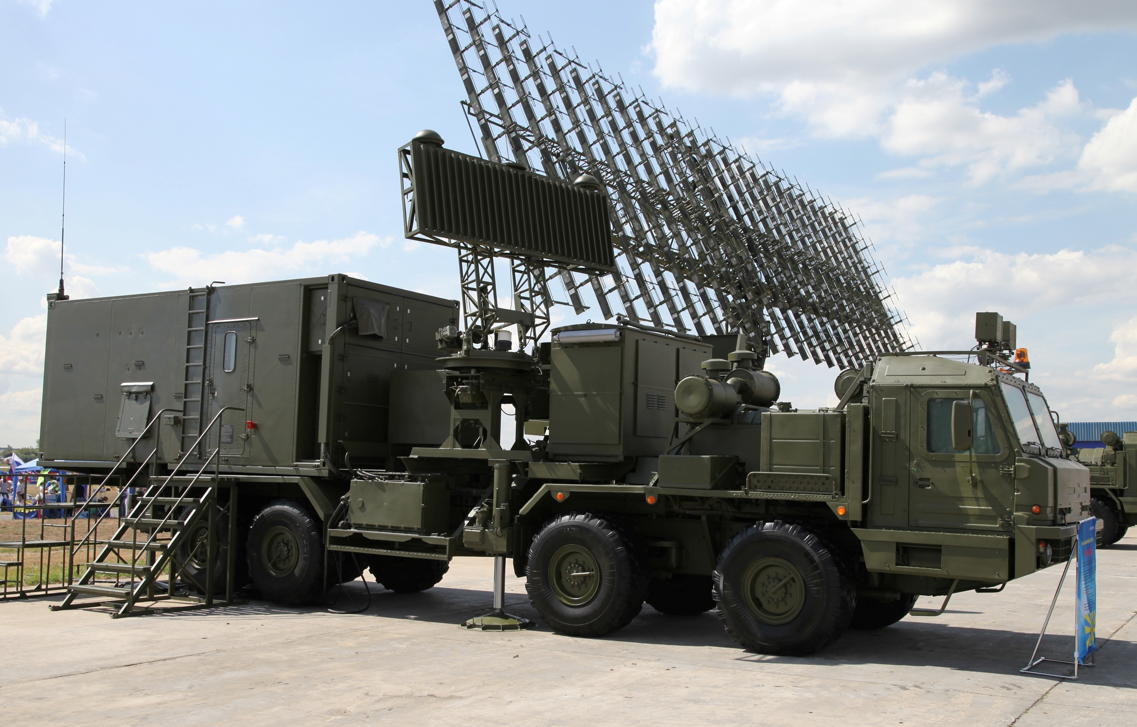 100th Anniversary of the Russian Air Force - Air defence systems of Russian original are shown.